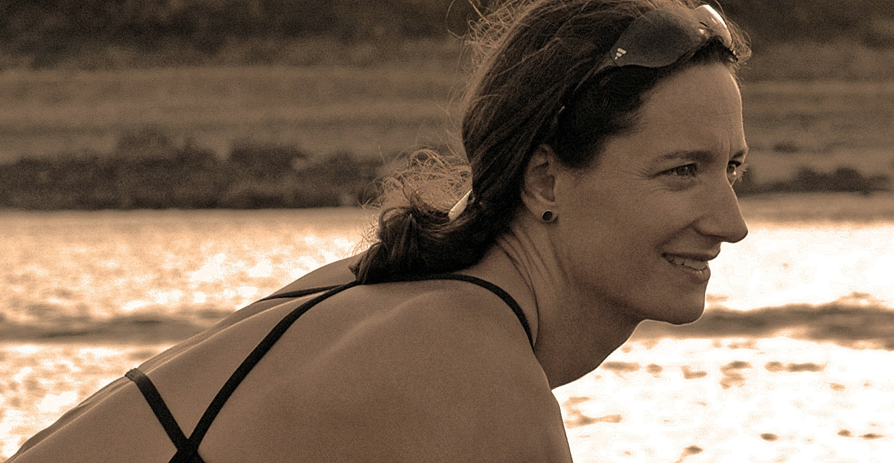 Kirsten Cameron, competitive swimmer from New Zealand